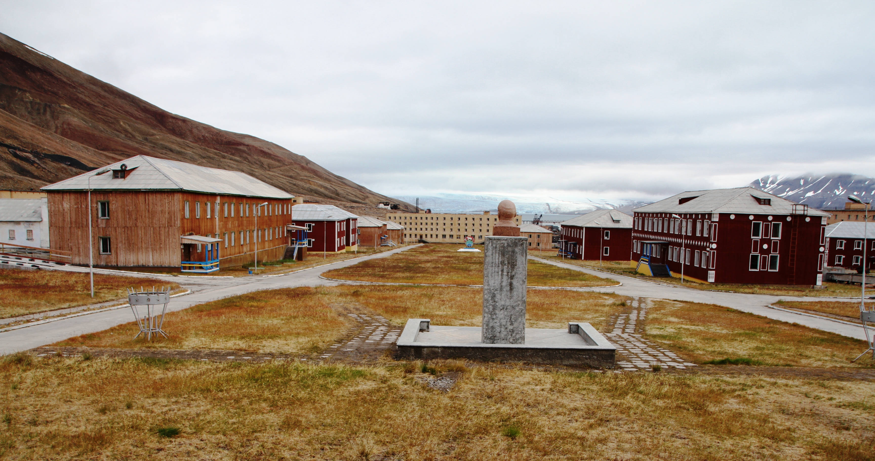 Piramida (Pyramiden9, an abandoned Sovjet-style settlement at Spirsbergen, Svalbard (Norway). The place was a coal mining community, abandoned in 1998.